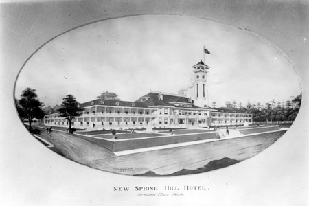 The "new" Spring Hill Hotel in the Spring Hill neighborhood of Mobile, Alabama. Destroyed by fire in 1918.